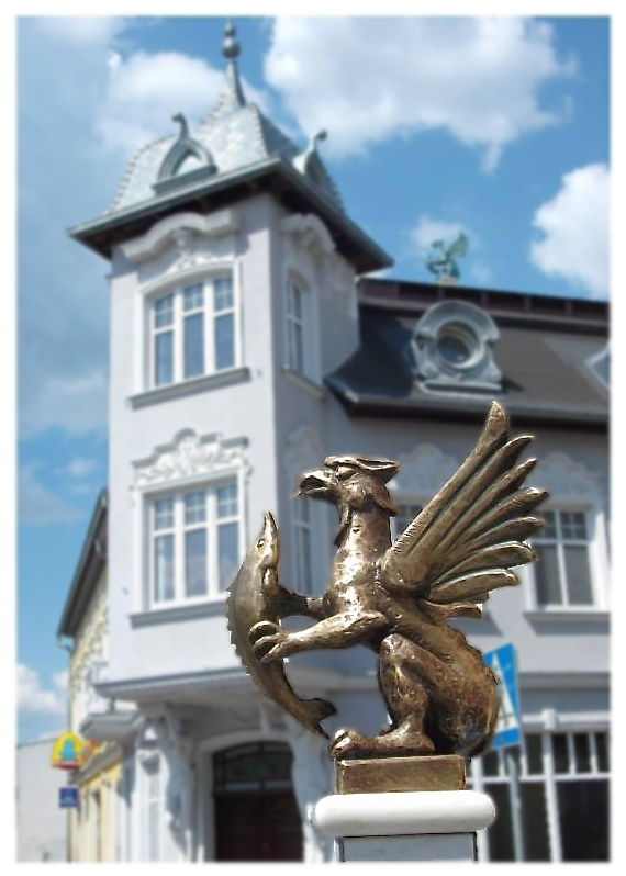 Szczecinek's Griffin